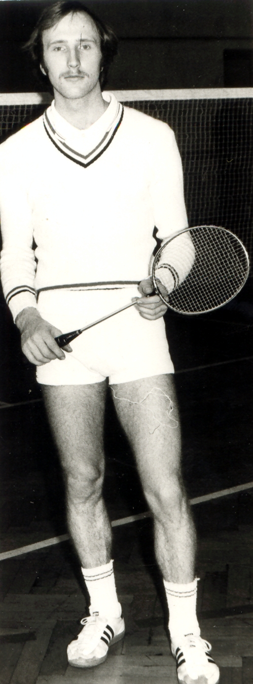 Frank_Thomas_Seyfarth